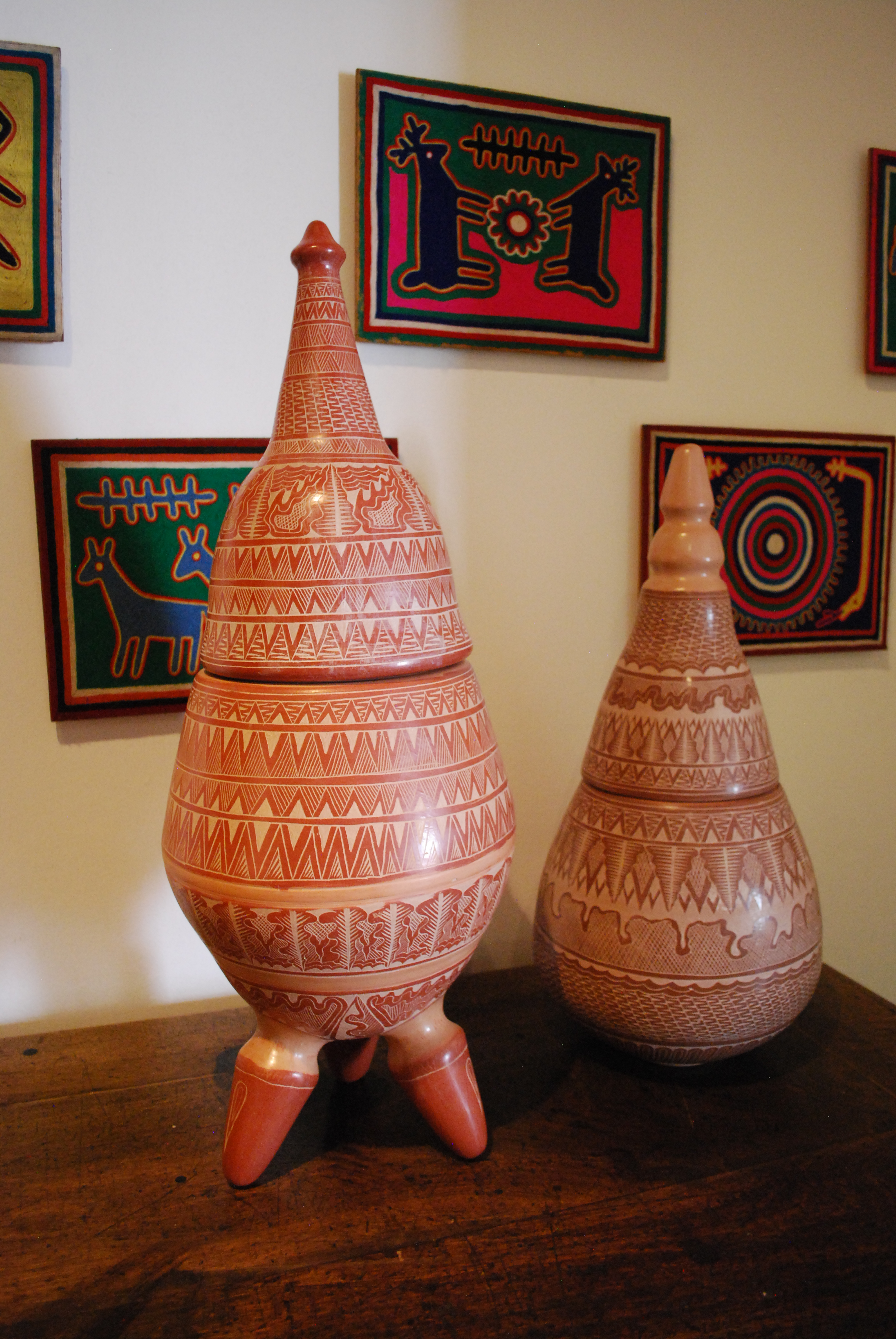 Pottery vases by Trinidad Nuñez Quiñones at the Museo de las Culturas Populares in Victoria de Durango